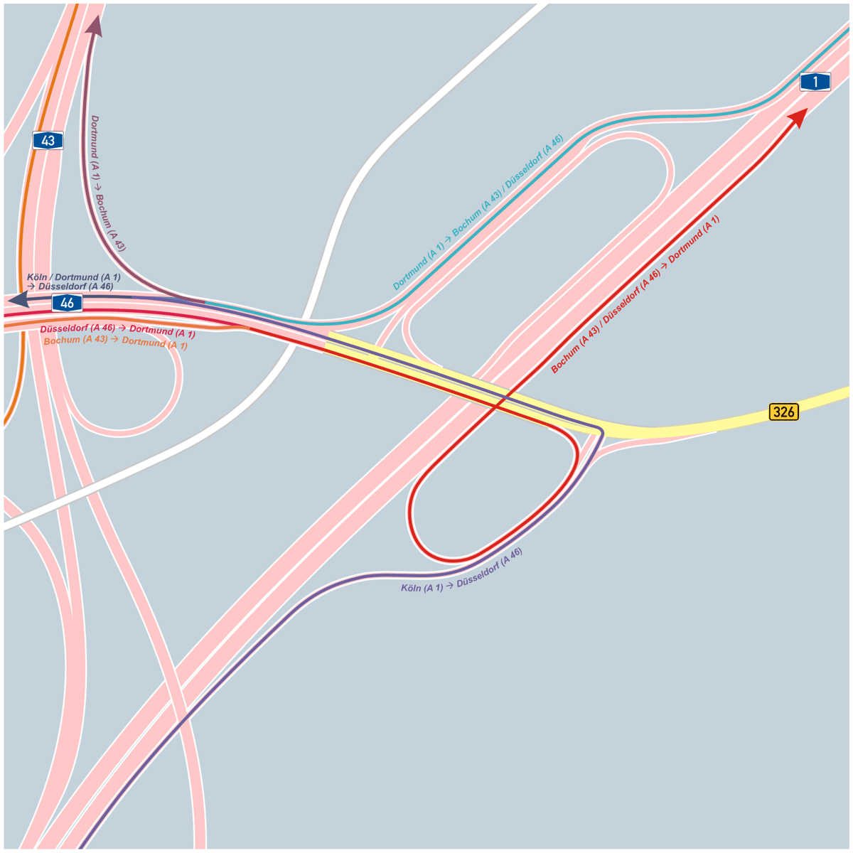 Interchange Wuppertal-Nord (non grade-separated relations)